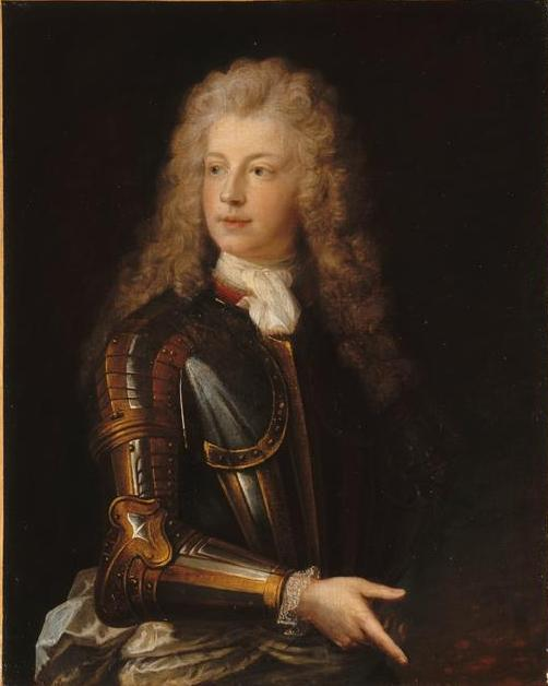 Louis Auguste de Bourbon, Prince of Dombes (1700-1755), grandson of King Louis XIV.